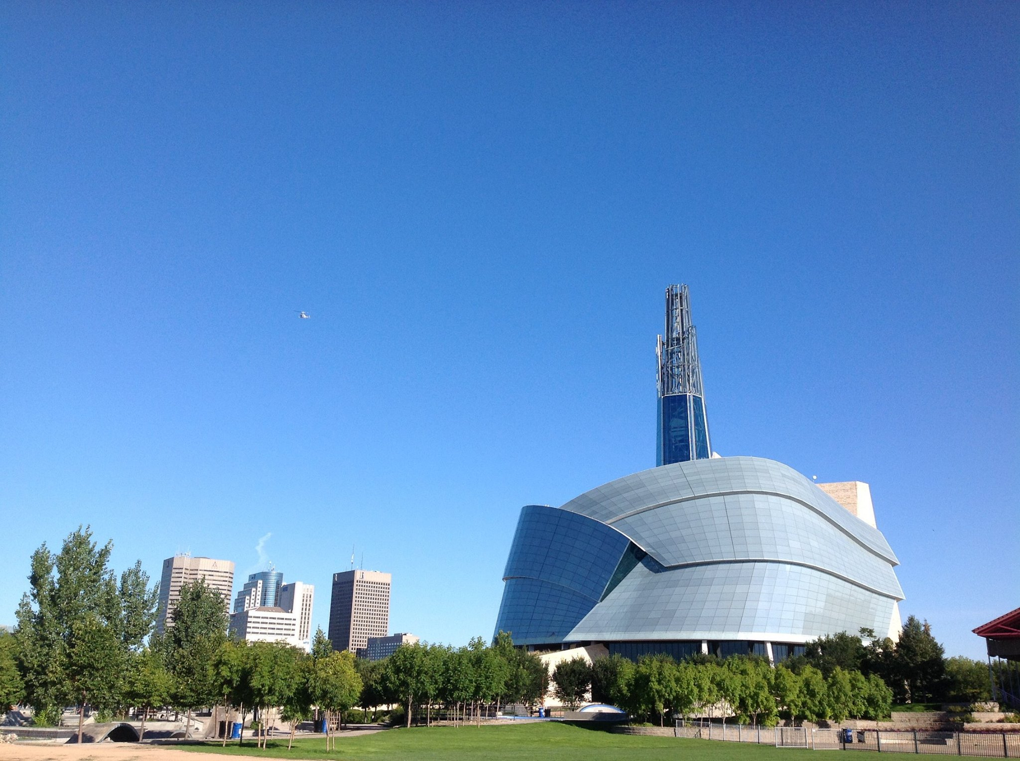 Canadian Museum for Human Rights Српски (ћирилица): Канадски музеј људских права, Винипег, Манитоба